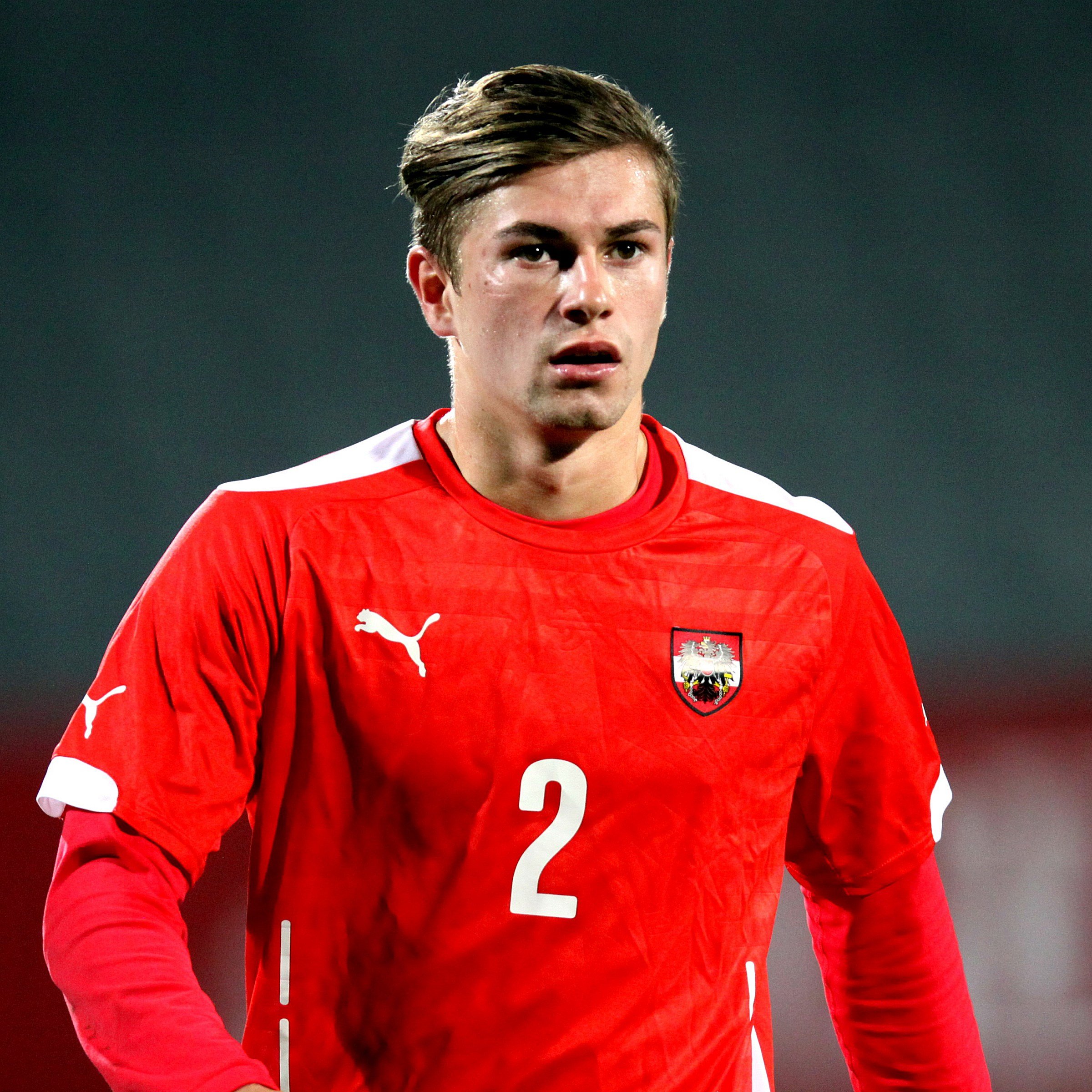 2017 UEFA European Under-21 Championship qualification – Austria U-21 (red shirts) vs. :en:Finland national under-21 football team |Finnland U-21 (blue shirts) 2-0 (0-0) – 2015-11-13 in Vienna, Austria Arena – The photo shows Andreas Gruber.